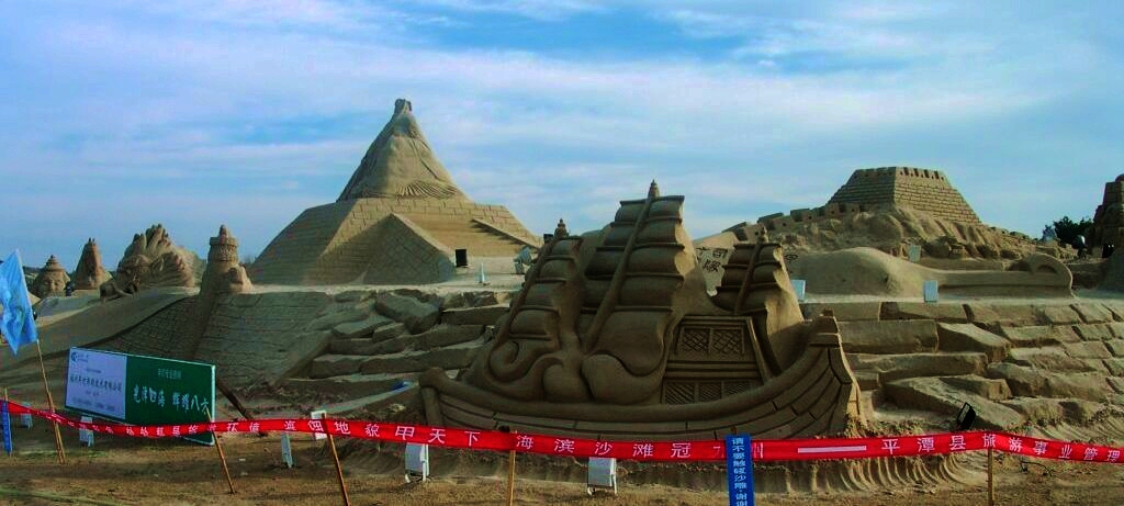 Sand Sculpture Festival in Pingtan, Fuzhou, China